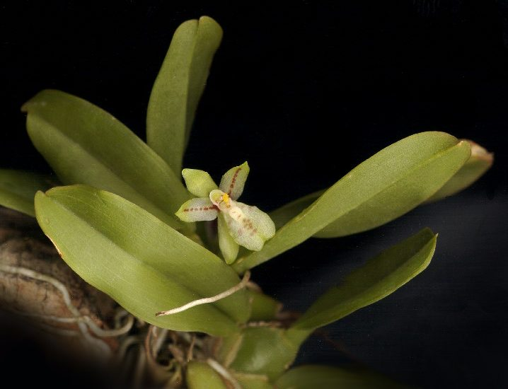 Leochilus scriptus